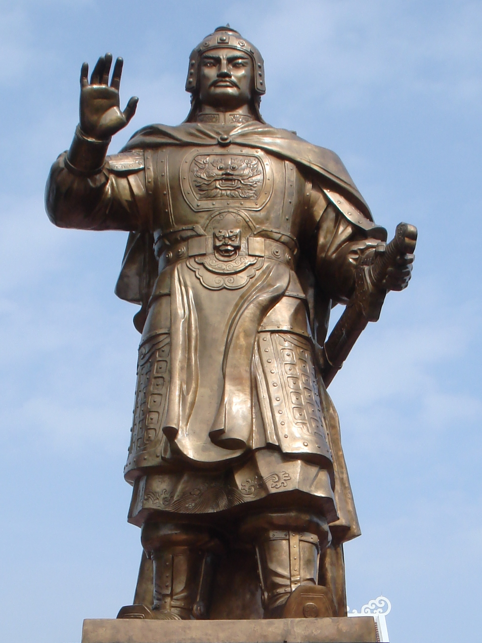 Statue of Emperor Quang Trung in the front of the Museum of Quang Trung in Quy Nhơn